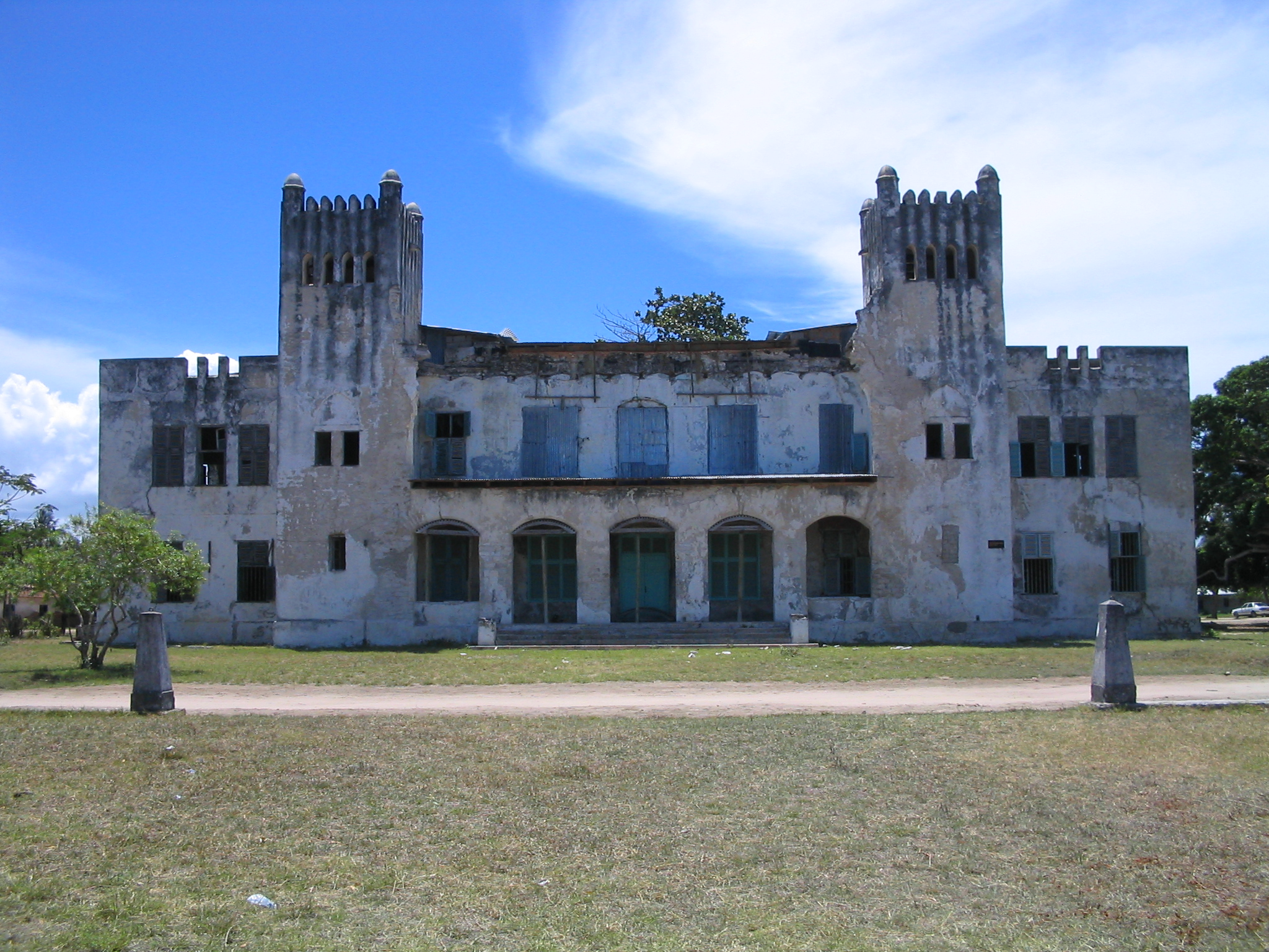 Alte Boma (Old Fort) in Bagamoyo (in 2004)